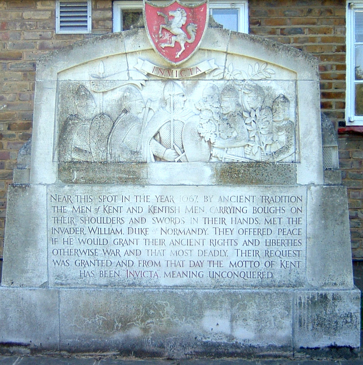 This monument depicts the meeting of Men of Kent and Kentish Men with the Invader William Duke of Nomandy after the battle of Hastings